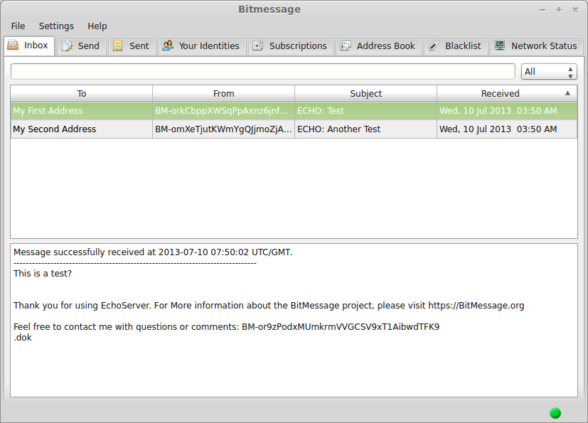 A screenshot of a Bitmessage client written in Python